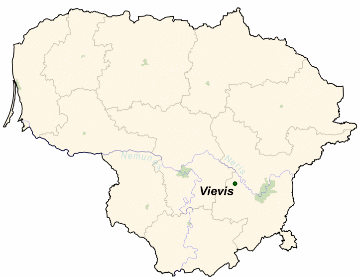 Vievis on the map of Lithuania